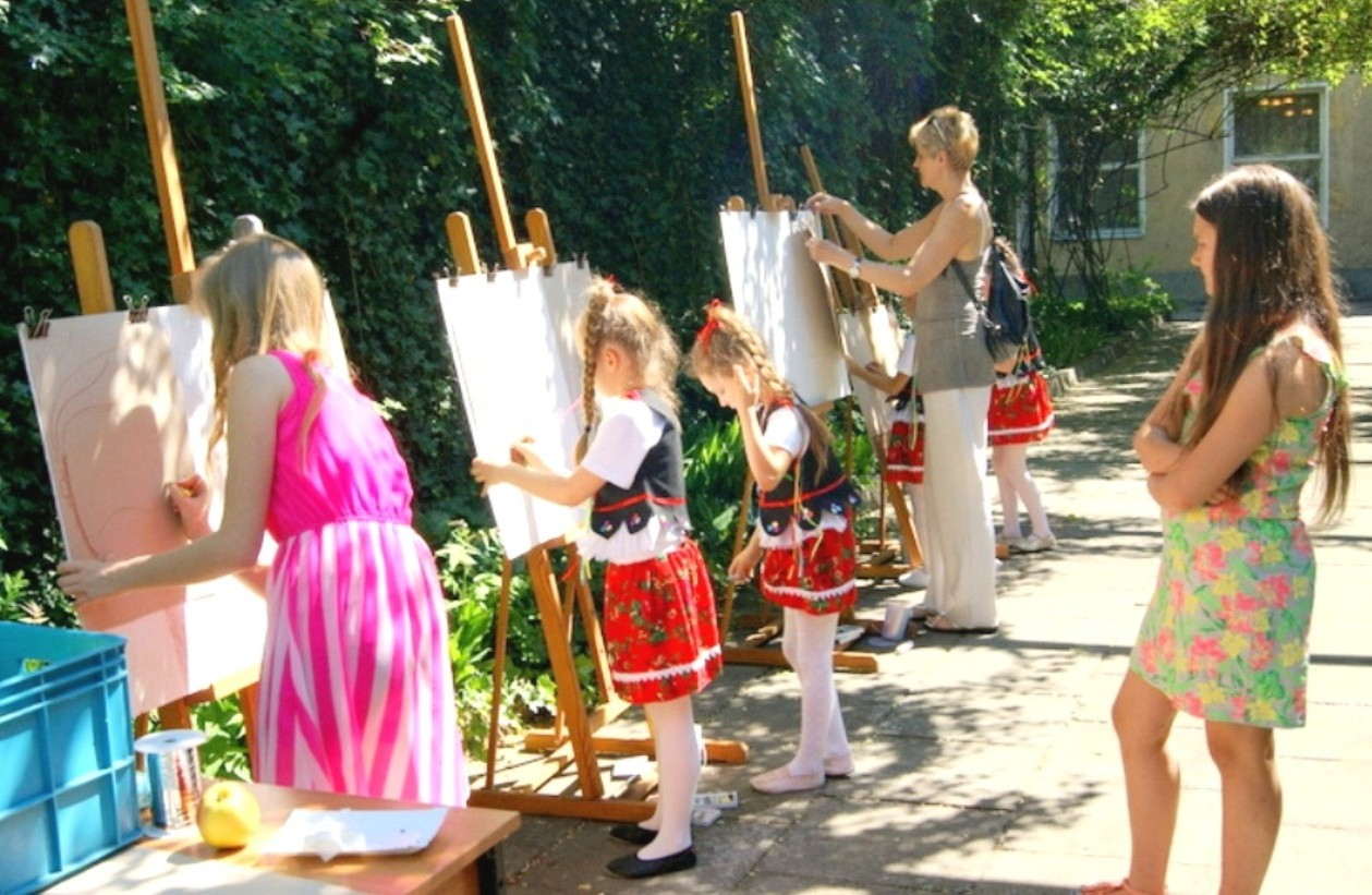 Klub Garnizonowy, koło plastyczne